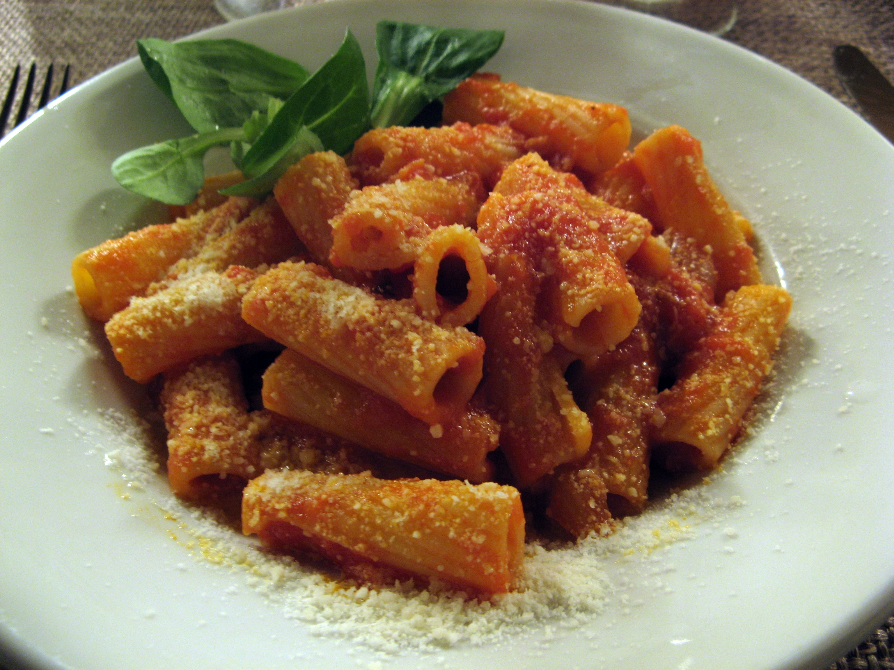 Dinner at an hotel in Greccio (Province of Rieti, Lazio, Italy)